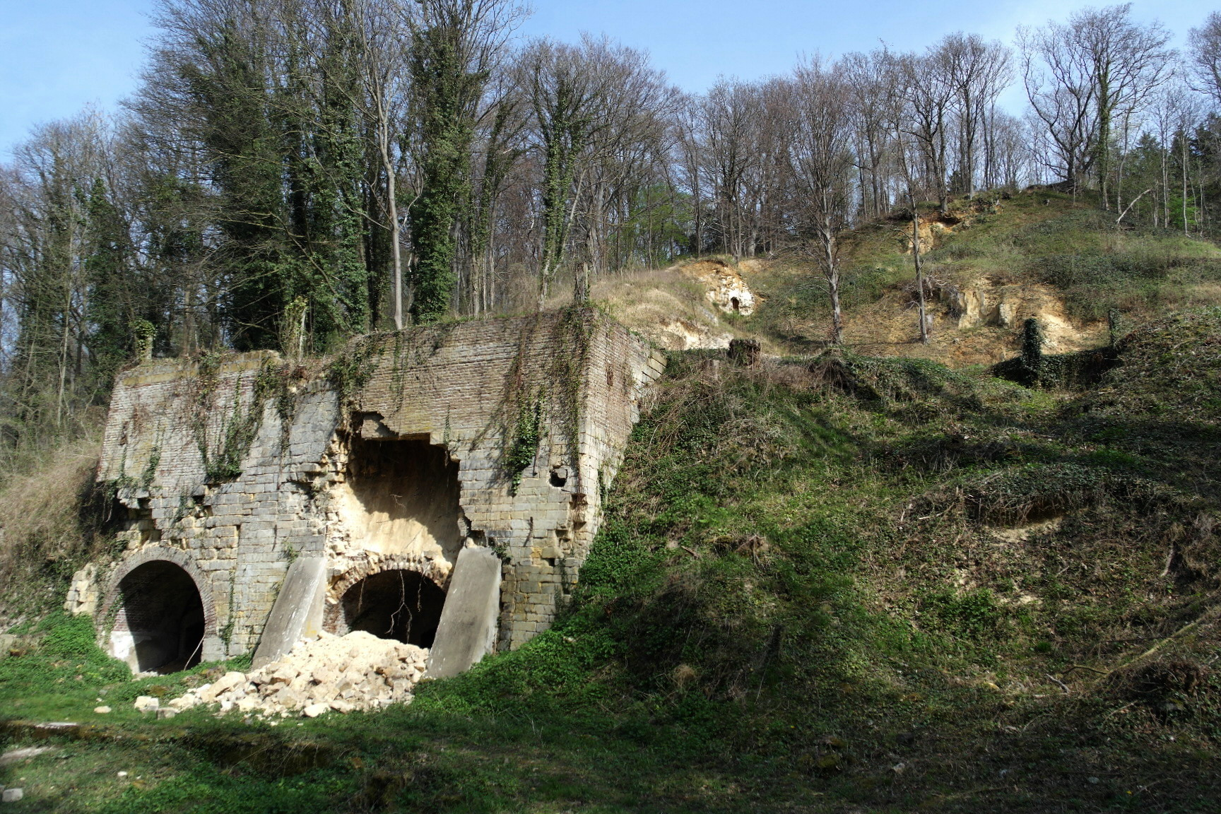 Sibbe, Limburg, the Netherlands. View of former lime kilns in Biebosch near Sibbergrubbe. The Limburg lime kilns produced lime plaster and lime mortar at the beginning of the 20th century.